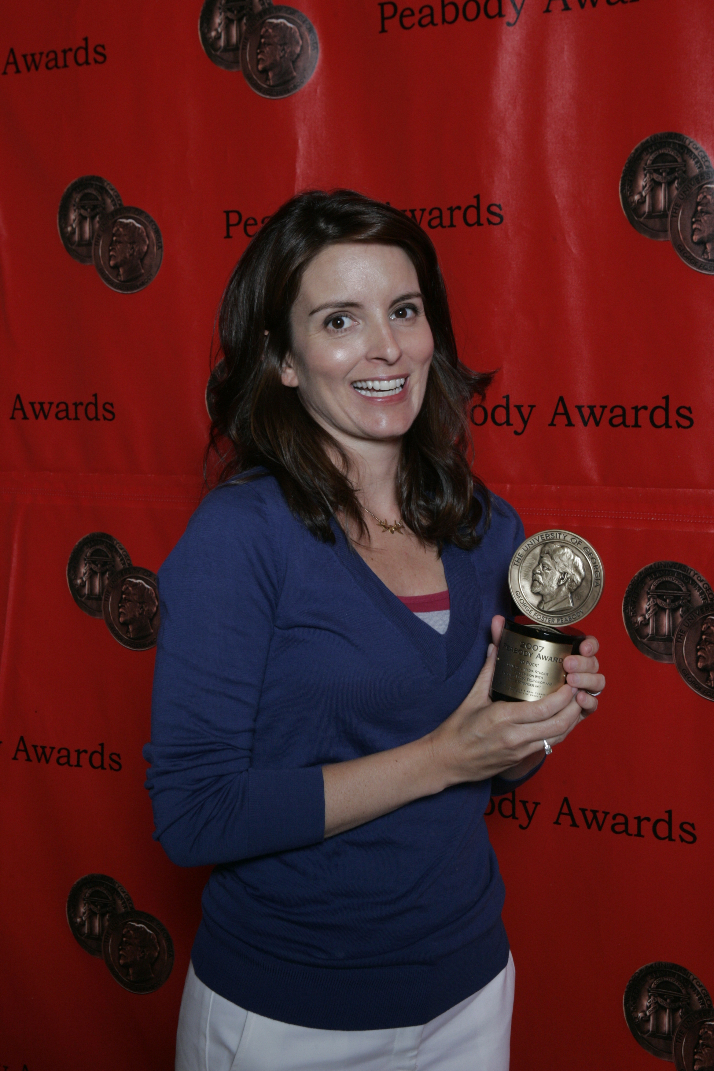 Tina Fey 67th Annual Peabody Awards Luncheon Waldorf=Astoria Hotel New York, NY USA June 16, 2008